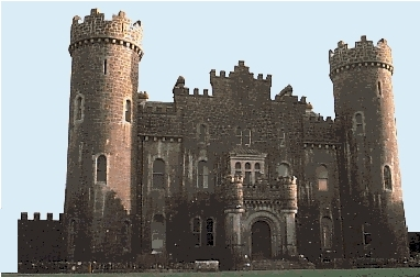 Post_De_Lacey_Castle_01 Period: 1639:Clonyn Castle, Delvin